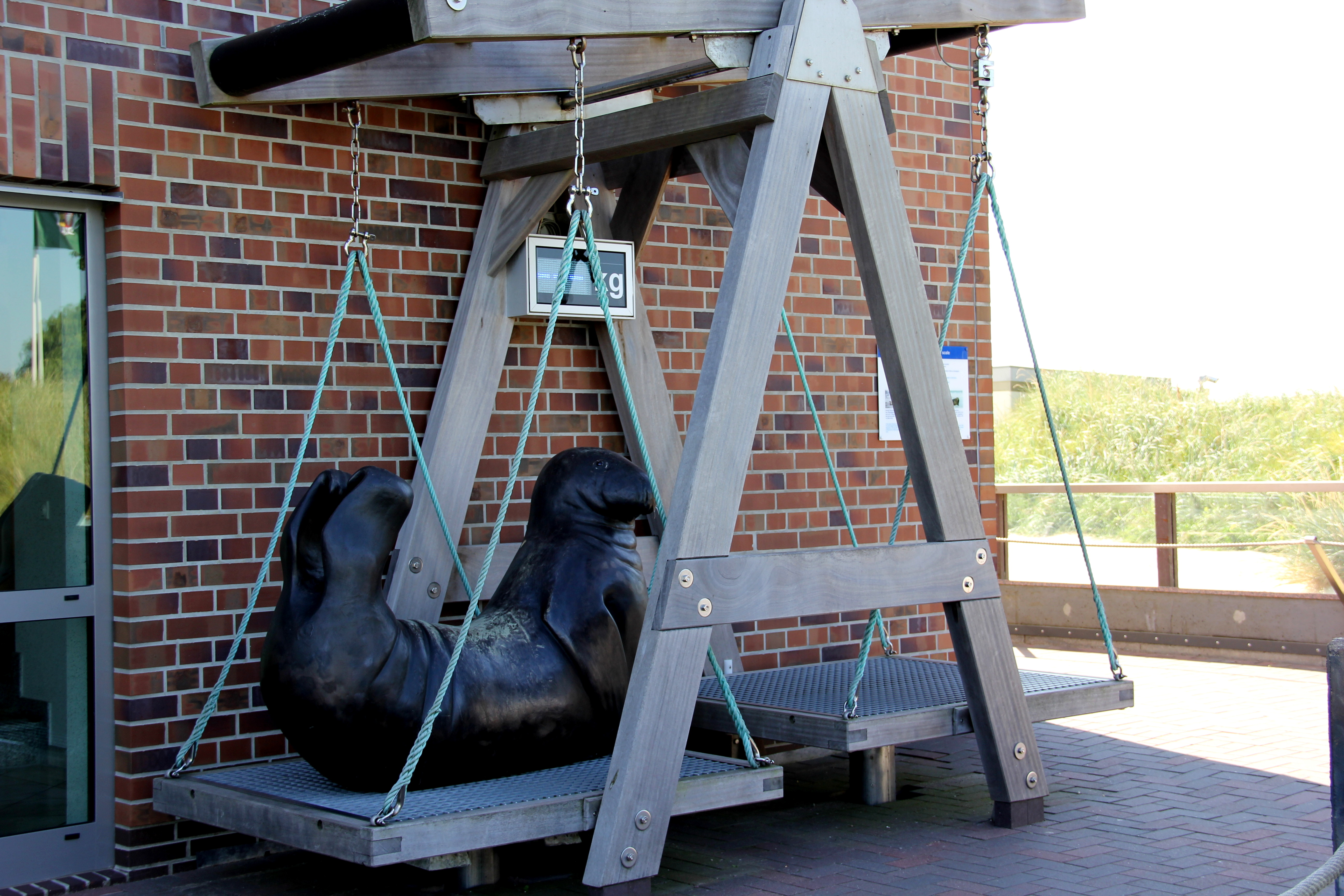 Scale to compare with a full grown seal.